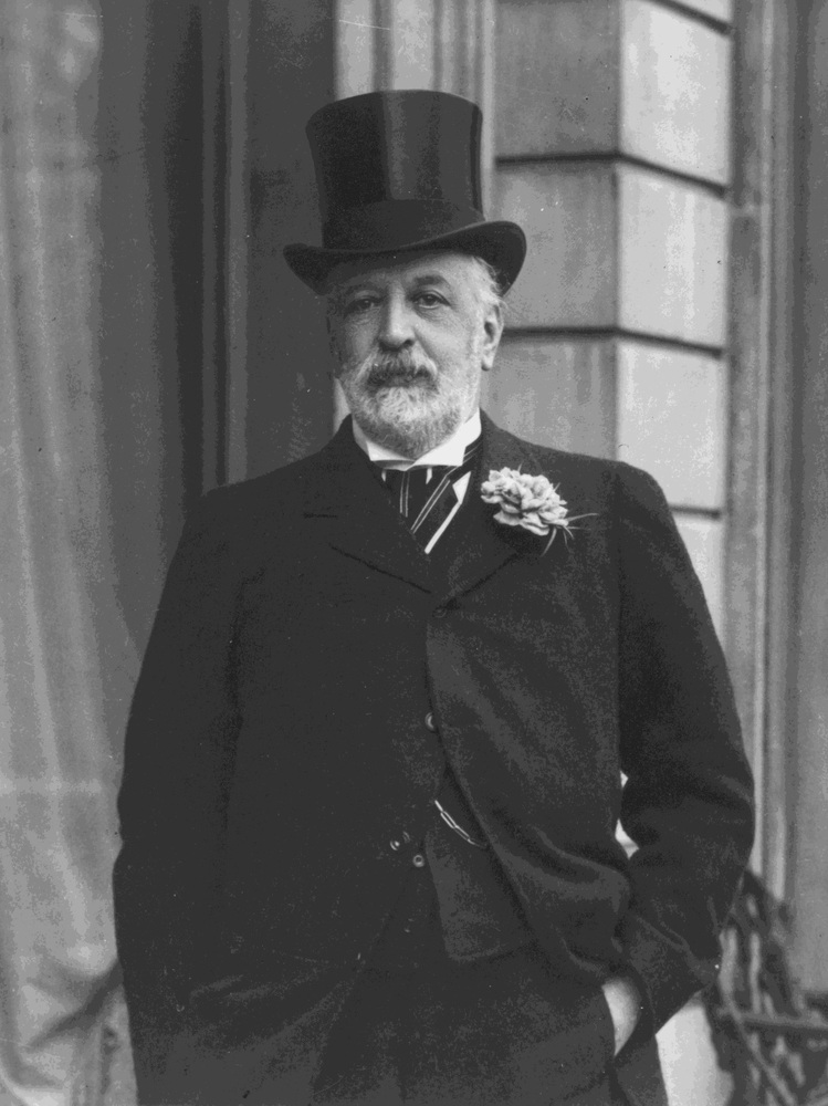 Nathan Mayer Rothschild, 1st Baron Rothschild.